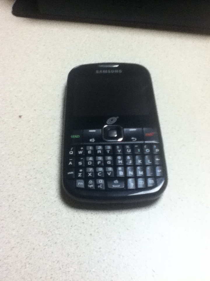 A photograph of the phone